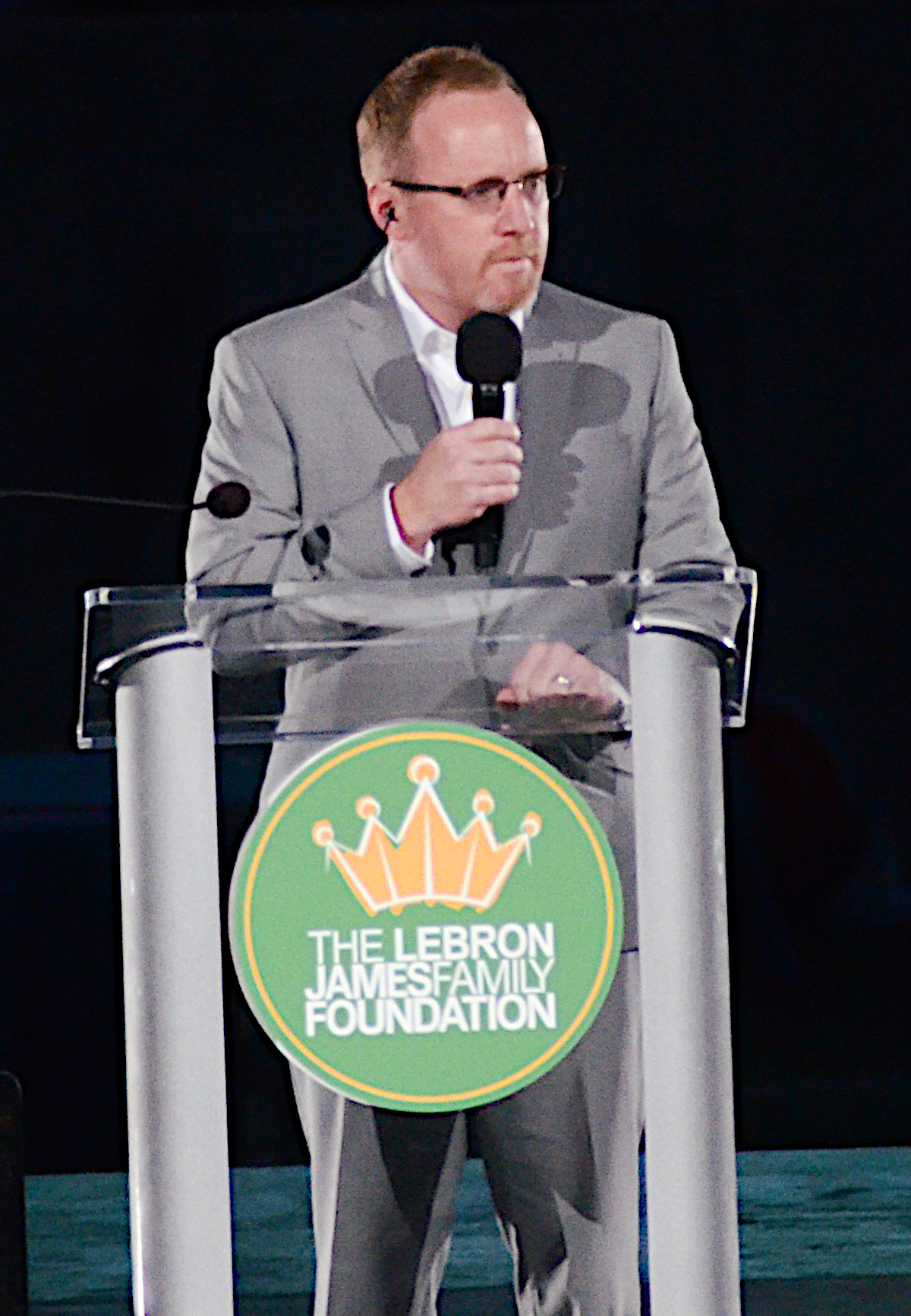 Cleveland Cavaliers General Manager David Griffin at the Welcome Home LeBron Rally in Akron